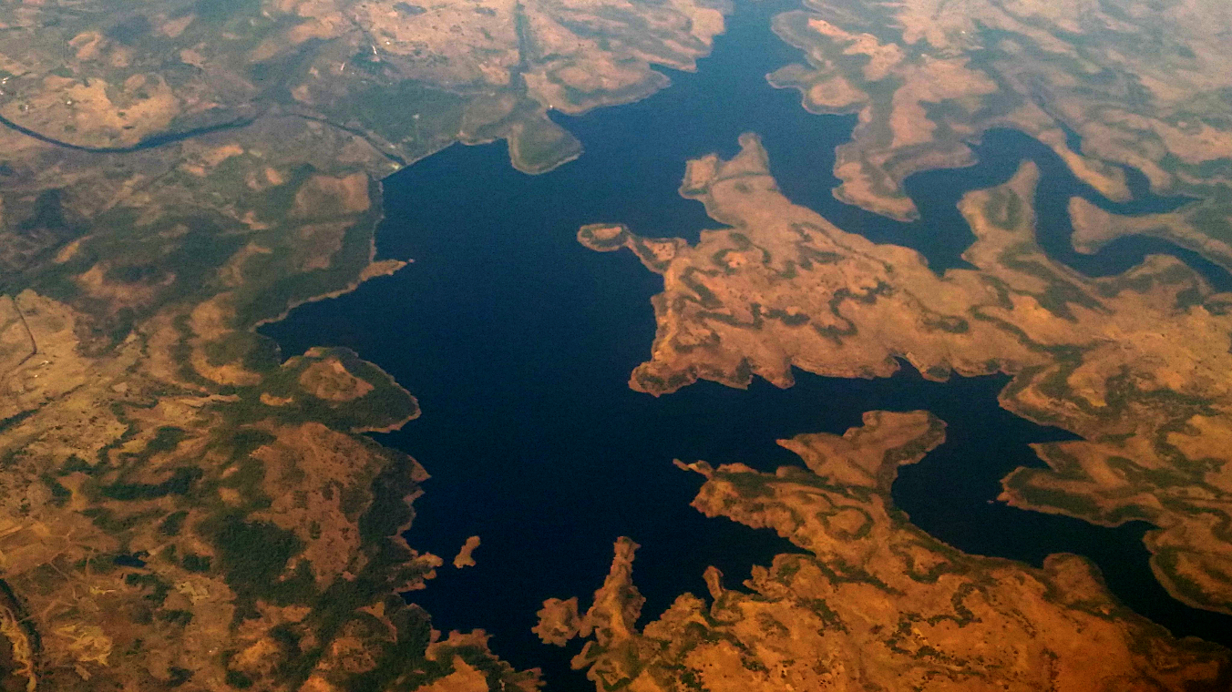 Aerial view of Bhatsa Dam, Maharastra